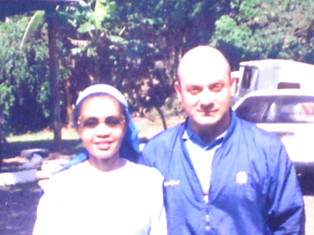 Picture of Sister Anna Ali and Brother Sergio Perez Estrada at Bishop Cornelius Korir's residence, Eldoret, Kenya.